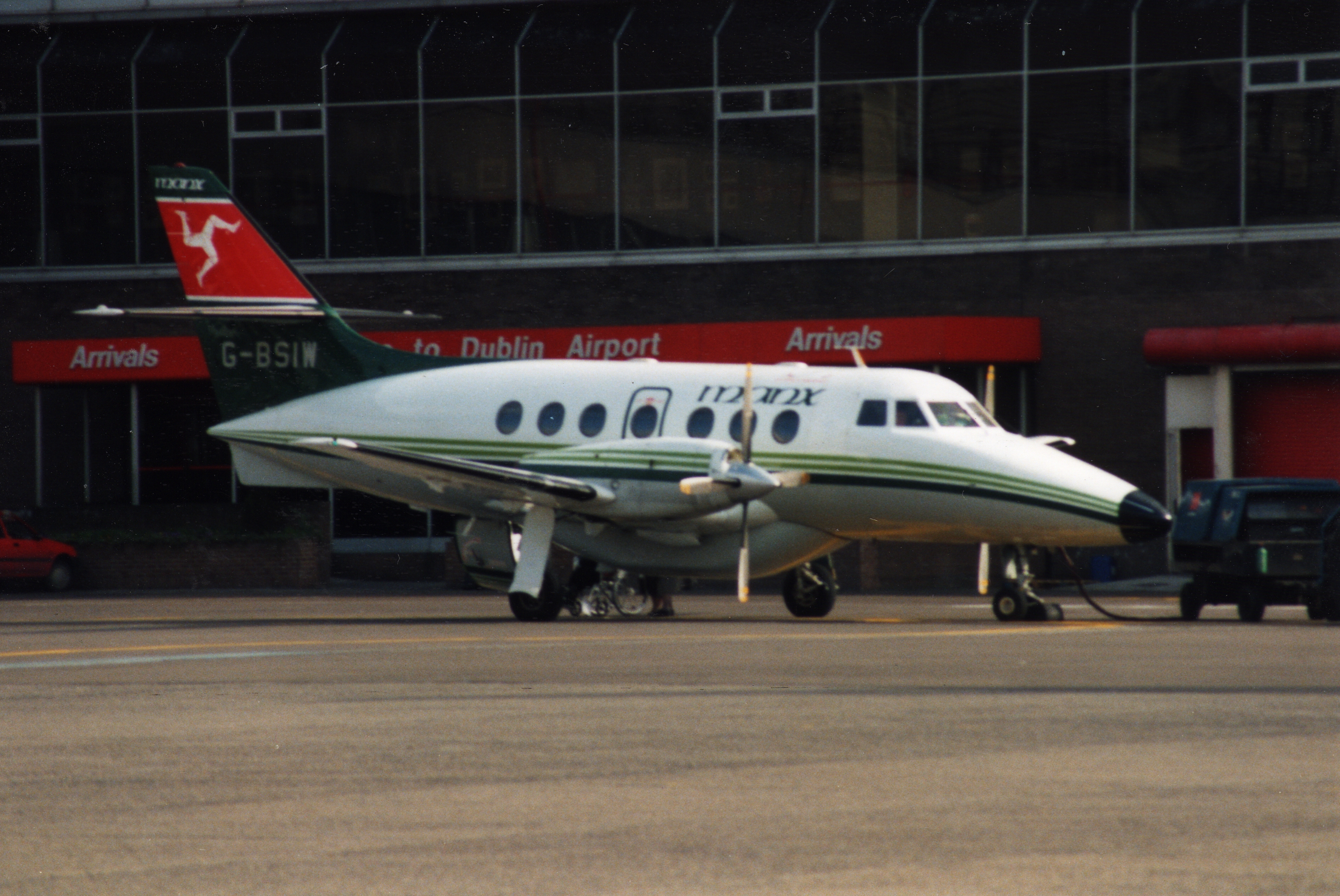 Manx Airlines BAe Jetstream 31 aircraft, Dublin Airport, Dublin, Republic of Ireland, February 1993